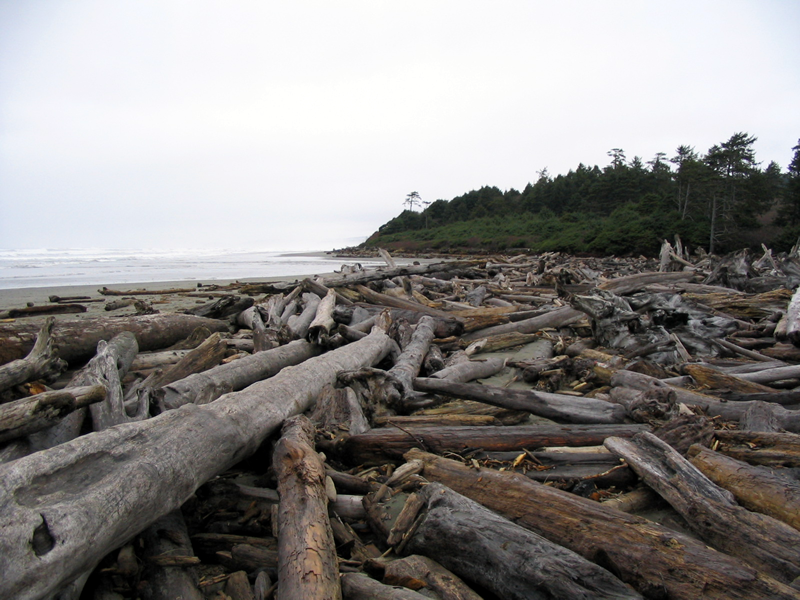 An expanse of driftwood along the northern coast of Washington state, taken 22 November 2004 by jsymmetry. Licensed under the terms of the GFDL.